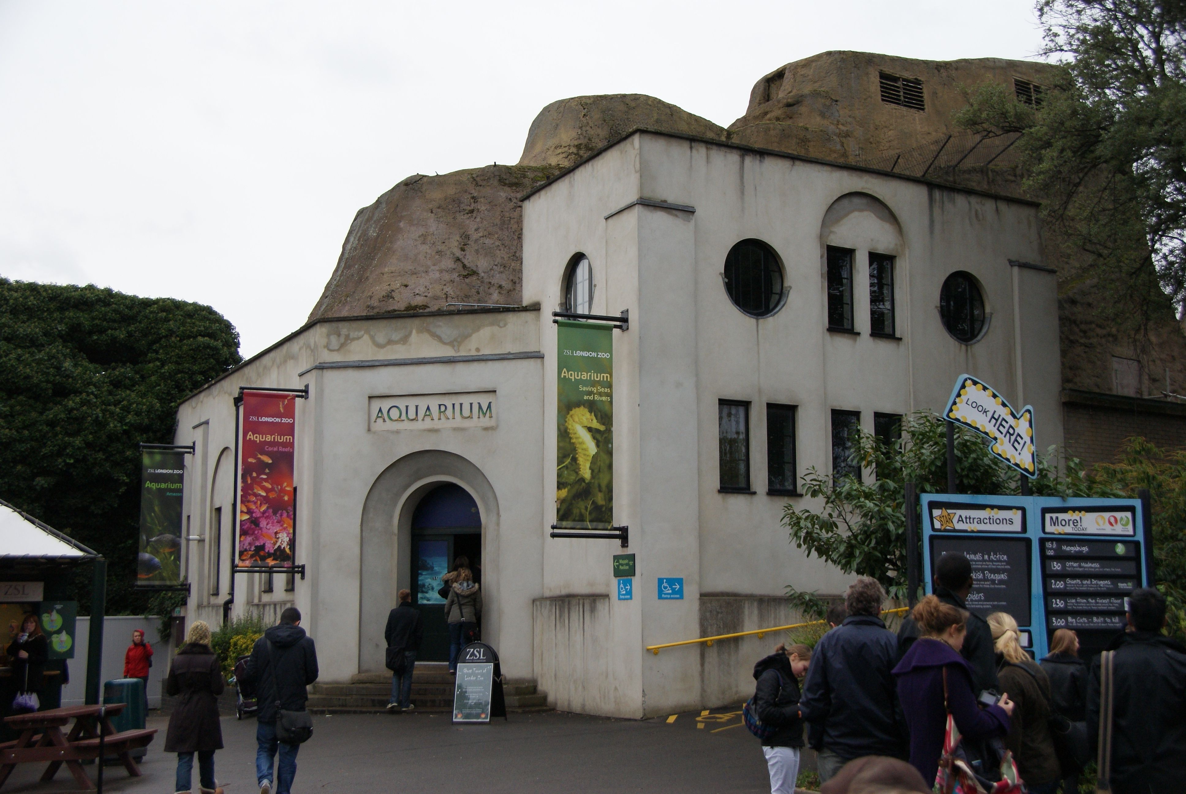 The aquarium at London Zoo, England.